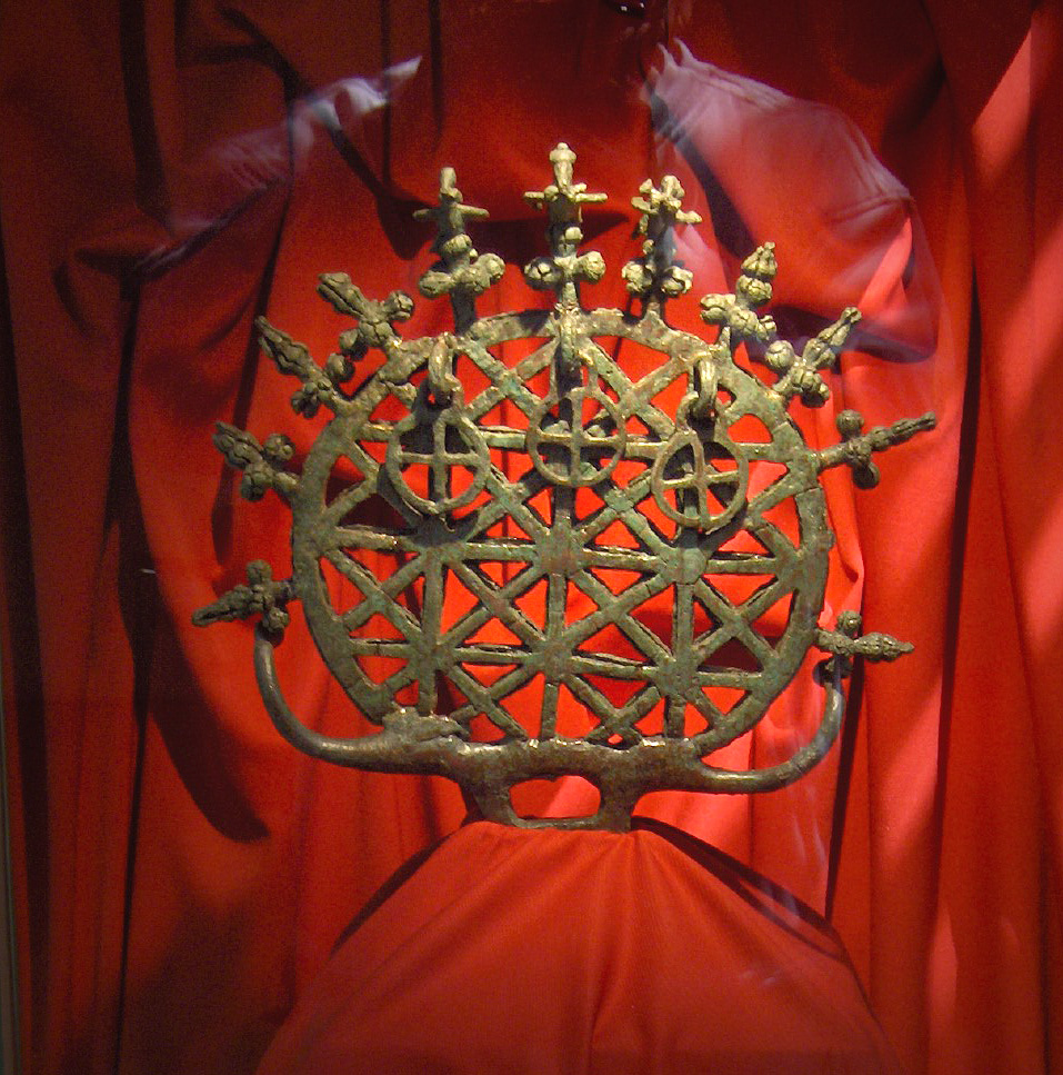 Bronze religious standard symbolizing the universe, used by Hittite priests; height: 34 cm; found at Alacahöyük; 2100-2000 BC; Product of Hattian art; Museum of Anatolian Civilizations, Ankara, Turkey.